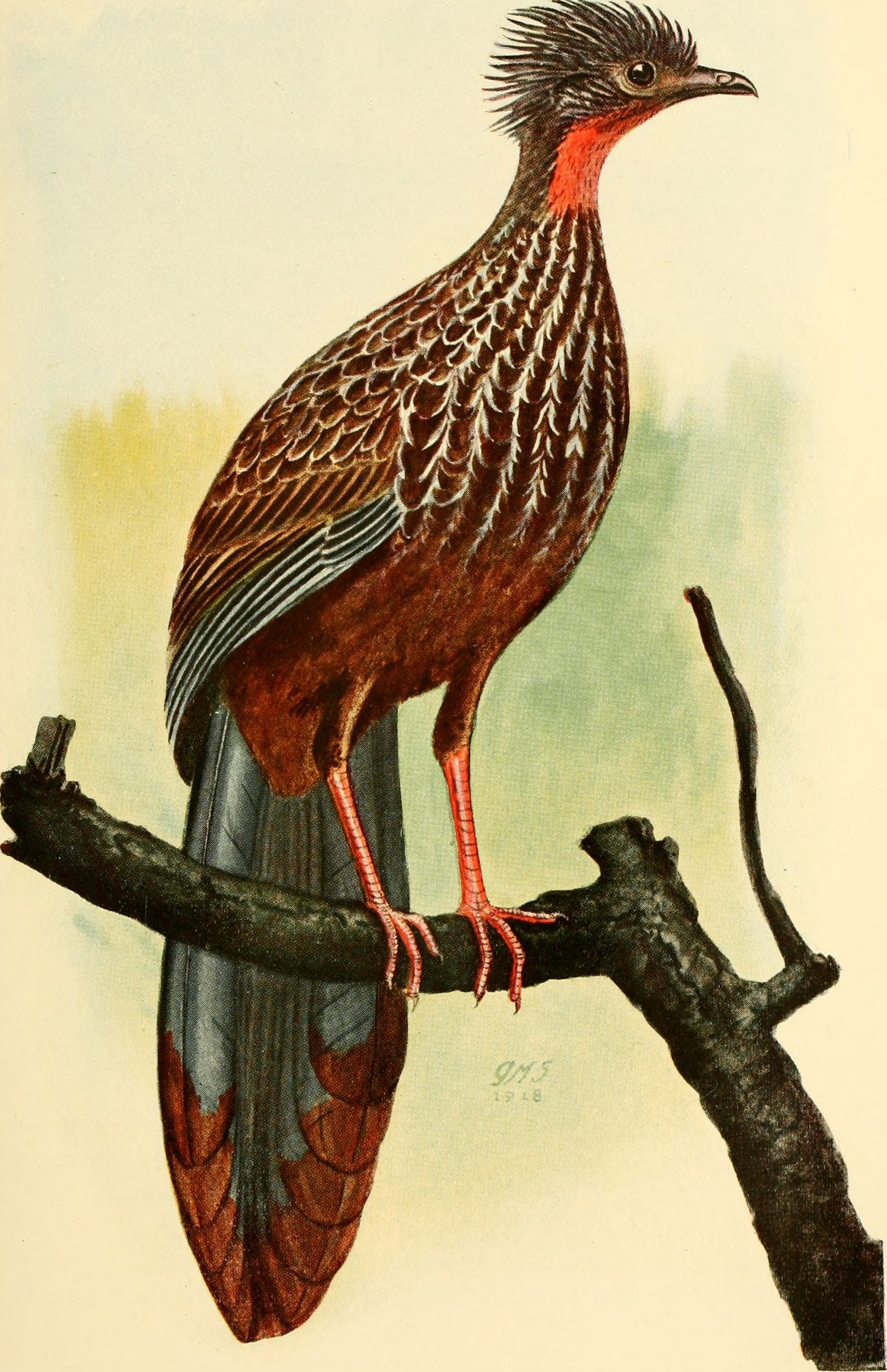 Title: Annals of the Carnegie Museum Year: 1922 (1920s) Authors: Carnegie Museum; Carnegie Museum of Natural History Subjects: Carnegie Museum; Carnegie Museum of Natural History; Natural history Publisher: [Pittsburgh : Published by authority of the Board of Trustees of the Carnegie Institute] Text Appearing Before Image: Annals Carnegie Museum Vol. XIV, pi. II Text Appearing After Image: Penelope colombiana Todd, 5 (One-fourth natural size)